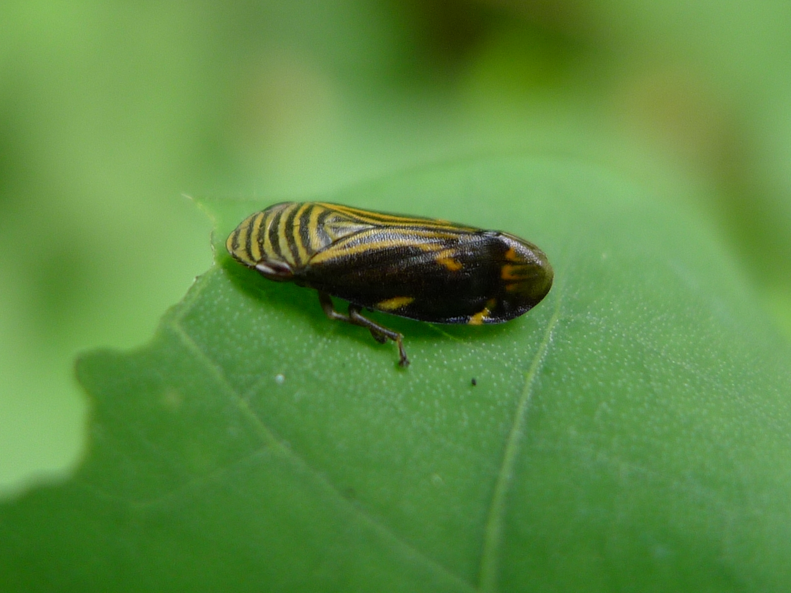 This spittlebug is also known as a froghopper. Clovia eximia a species of Cercopidae. Poon Saan, Christmas Island, Australia, April 2011.